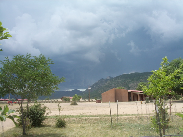 View of Philmont Scout Ranch "tent city" before storm.